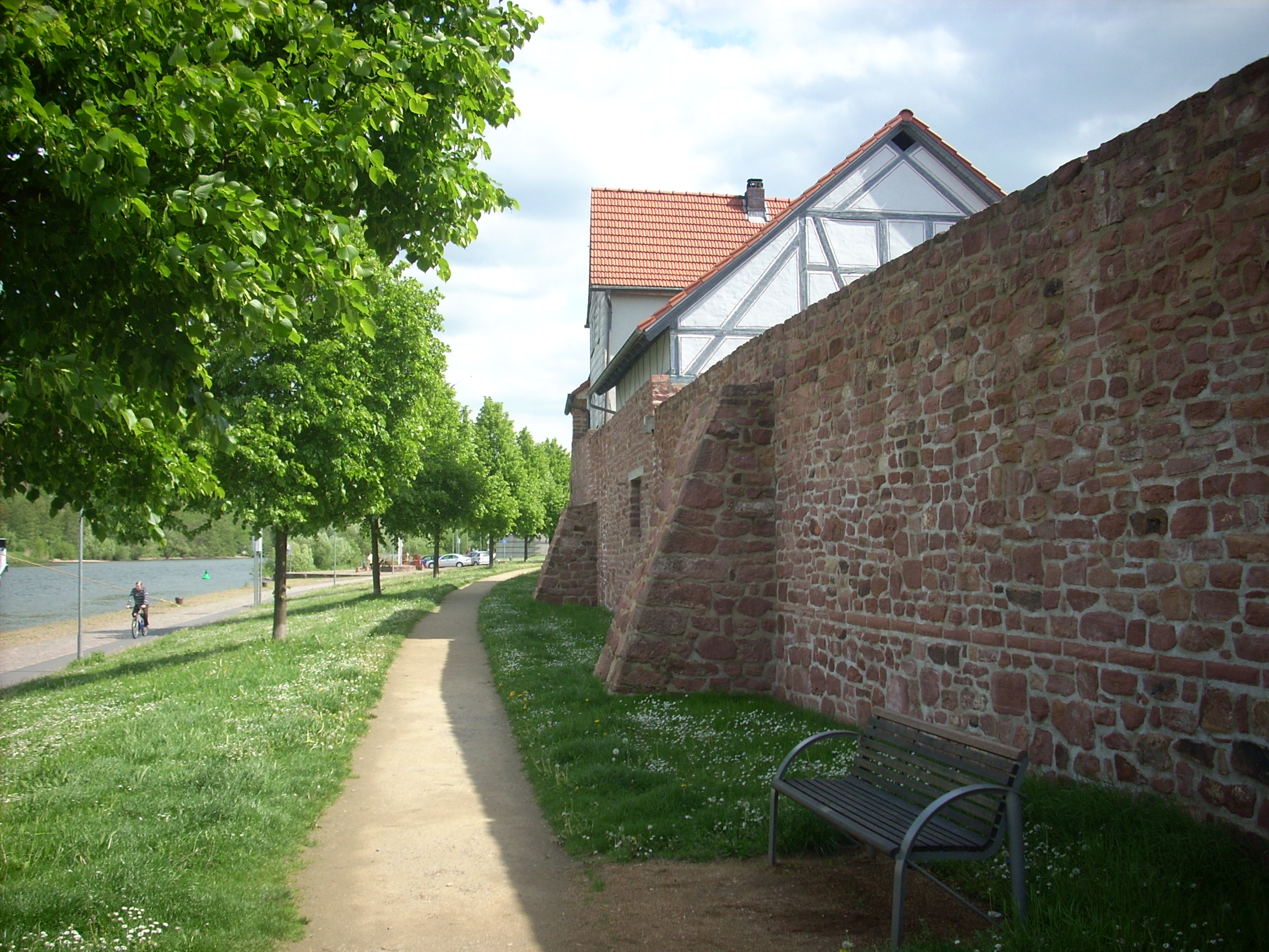 Wörth am Main